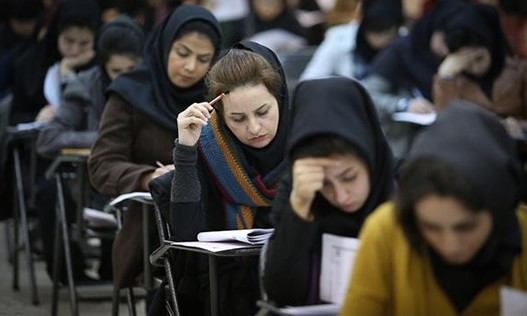 iranian womans in konkur exam